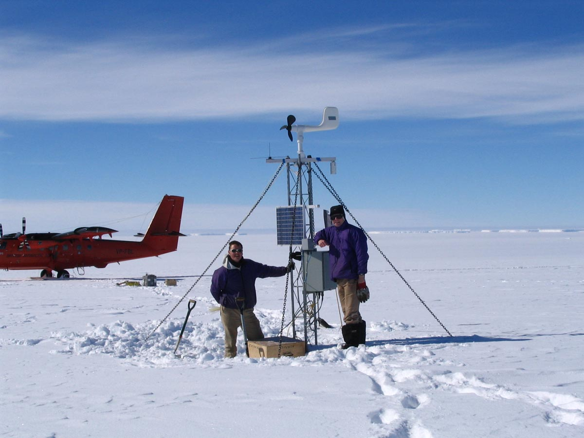 An automatic weather station being installed near on Butler Island Rothera.